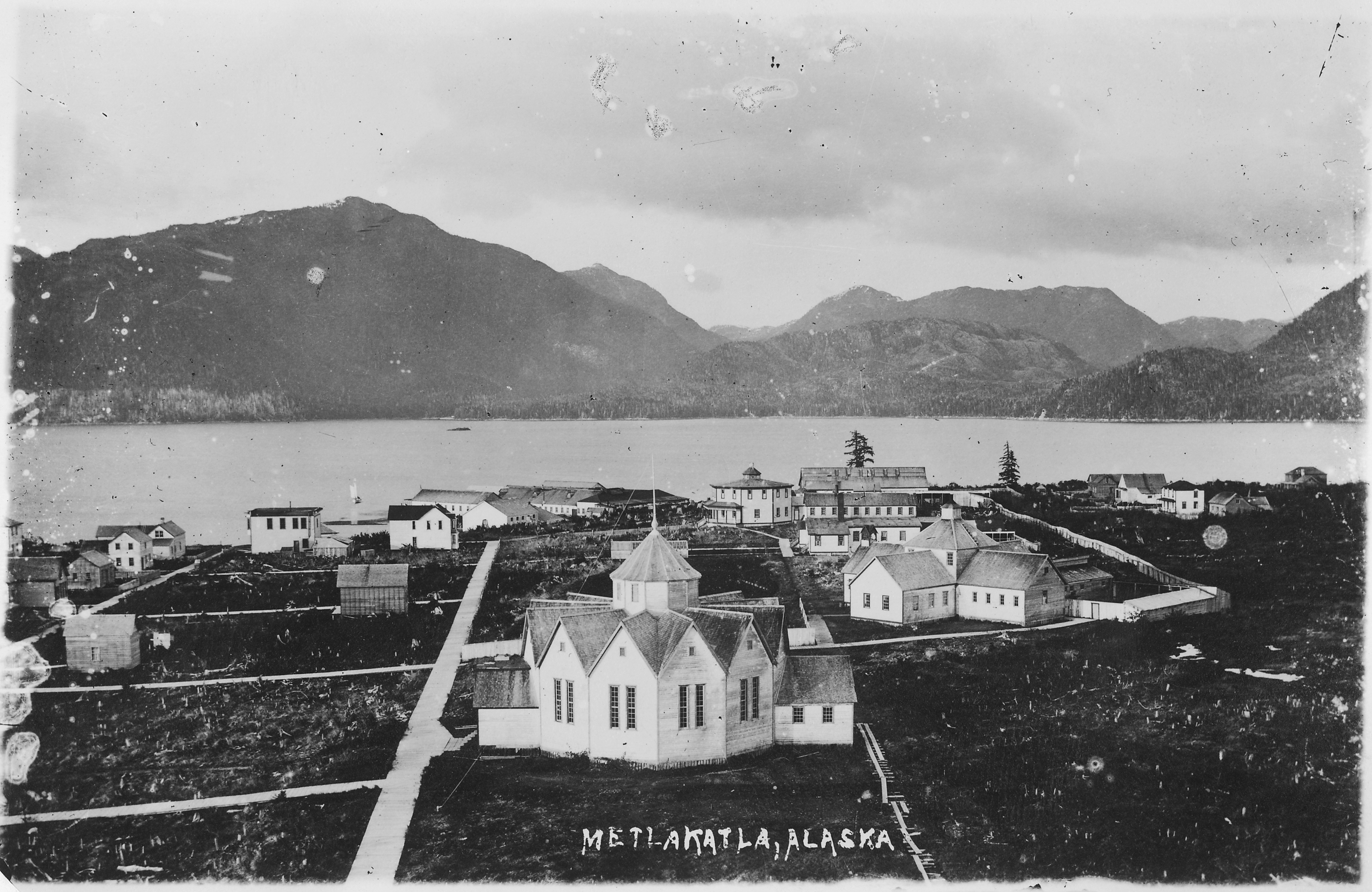 Scope and content: In foreground, center: Town hall. Visible to the right: school, mission building, guest house.